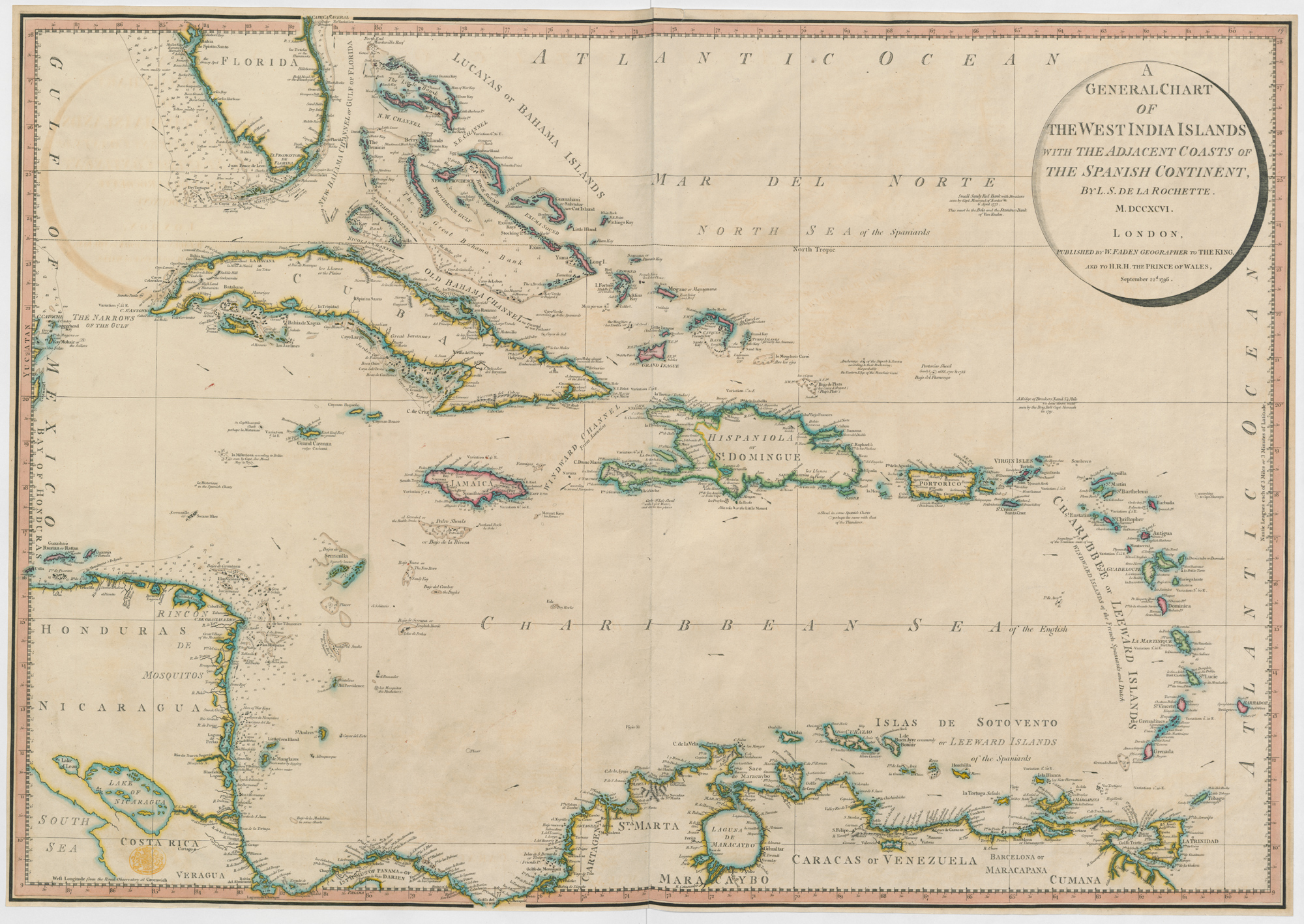 Islands in the West Indies in 1796: "The map is colour coded to show which European country controlled which colonies. The British colonies have pink around their borders, the French blue and the Spanish yellow."